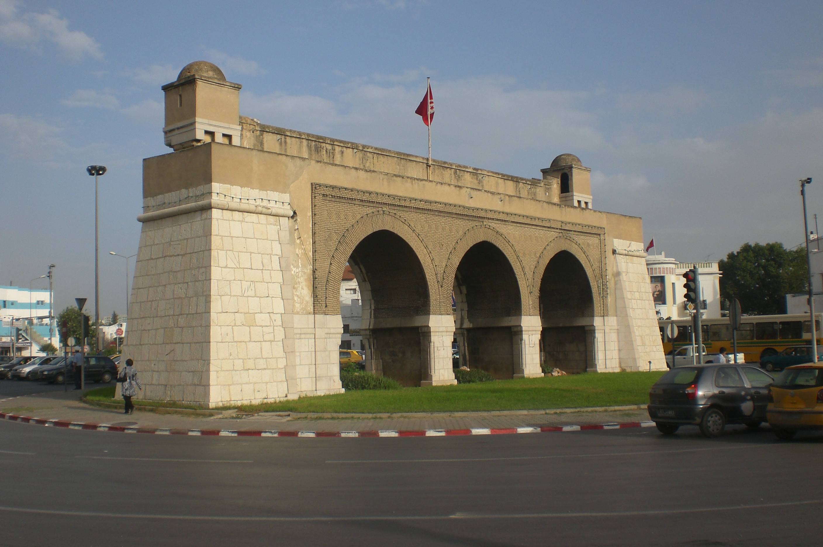 Bab Saadoun in Tunis